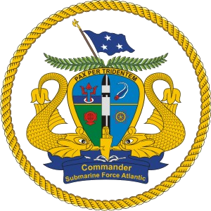 badge for the Atlantic submarine command, us navy